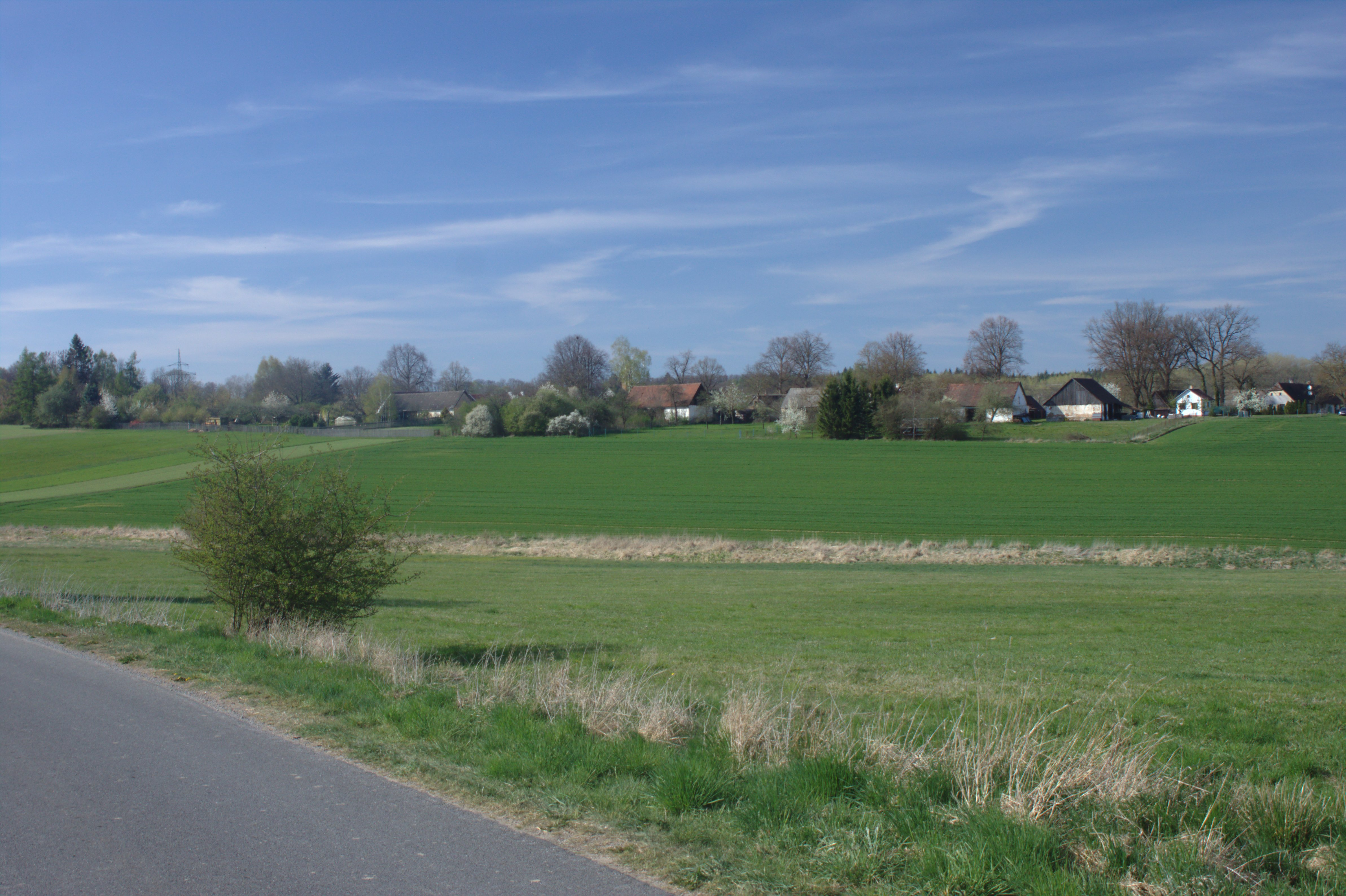 This photograph was created as a part of Wikiexpedition Mladá Vožice, a project supported by Wikimedia Foundation grant.